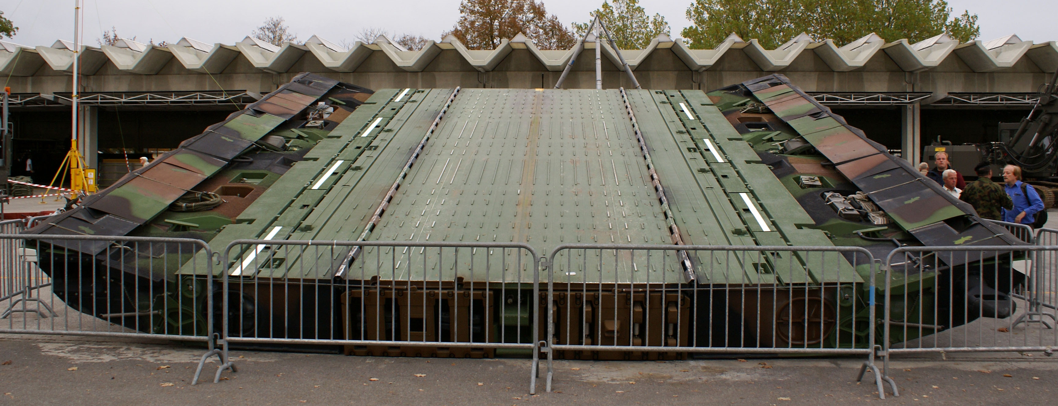 Swiss Army. Pontoon bridge 95.